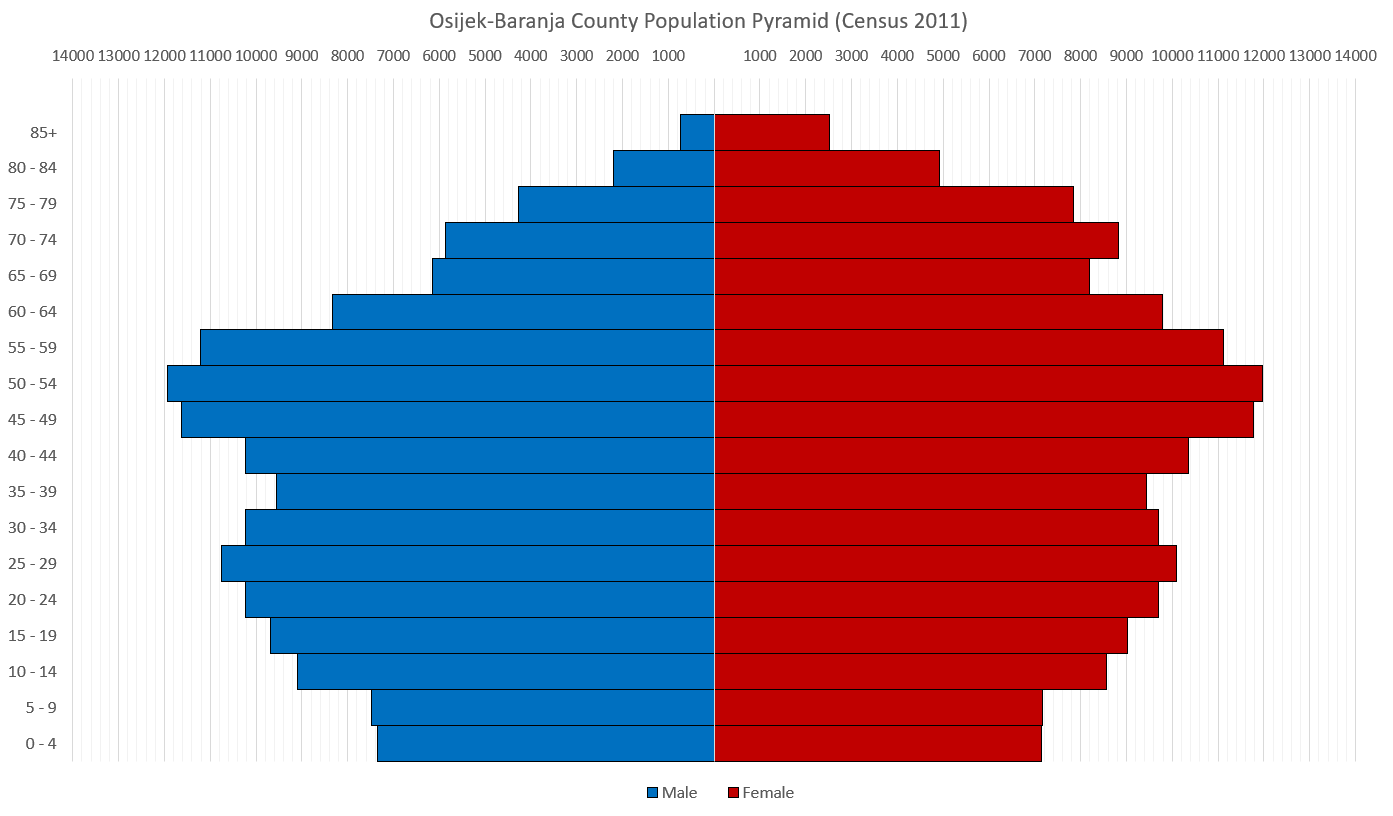 Population pyramid of Osijek-Baranja County. Version in English. Data from 2011 Census; available at